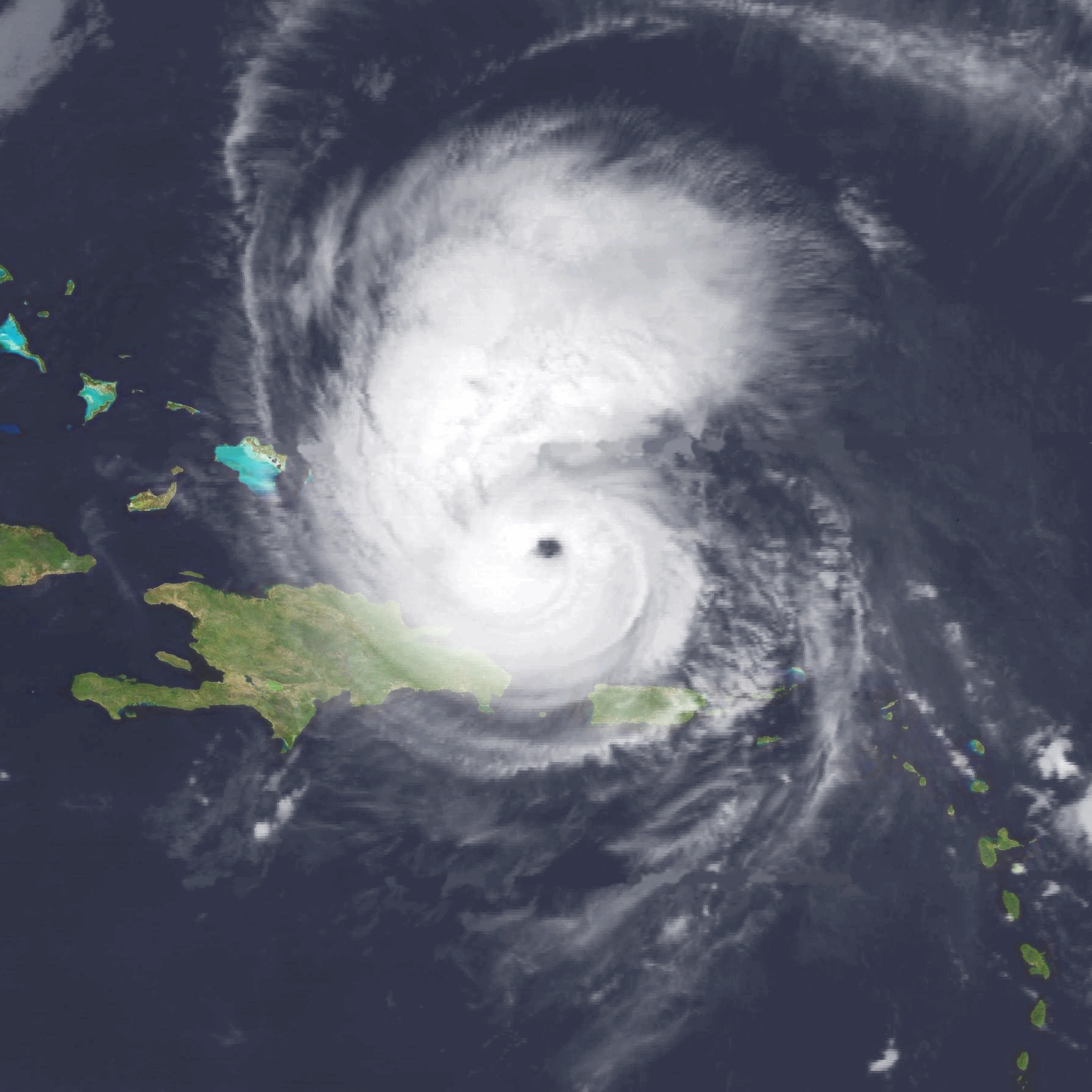 Hurricane Bertha at peak intensity just north of the Dominican Republic on July 9, 1996